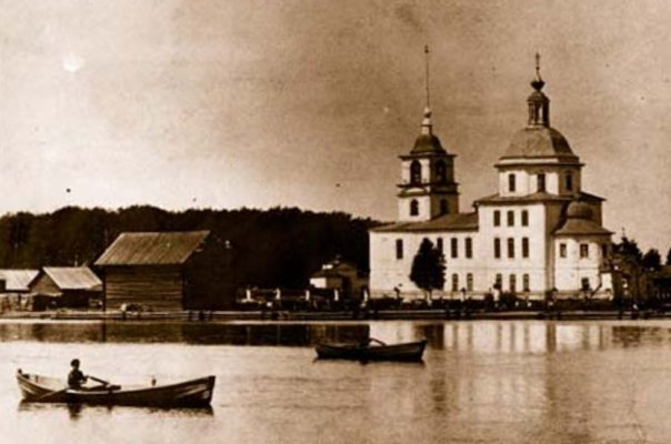 Krokhino, end of XIX or beginning of XX century